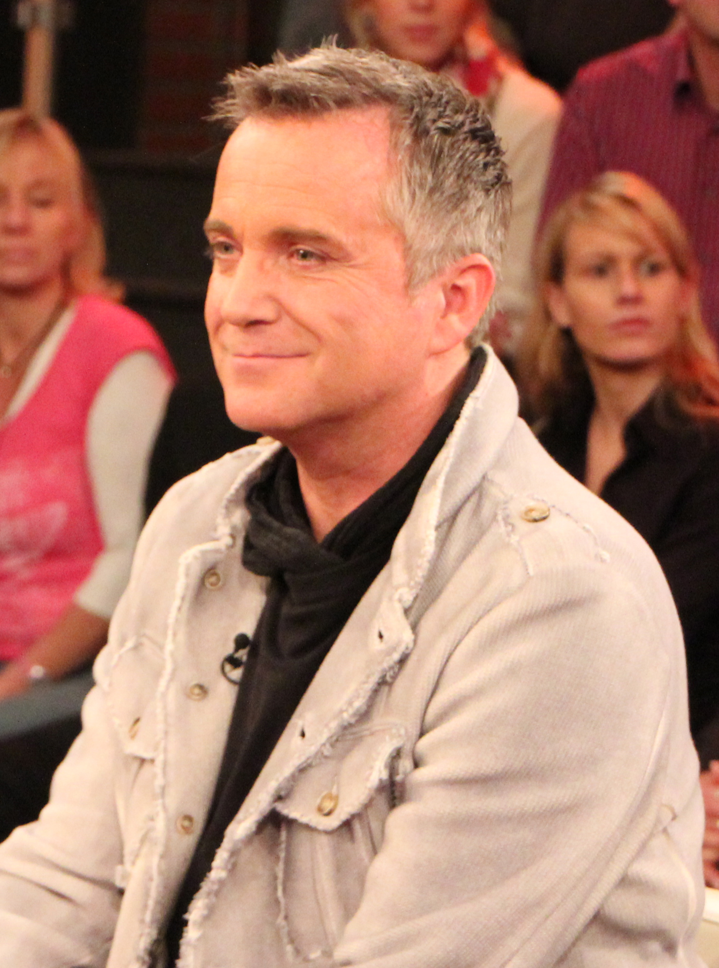 German comedian and parodist Jörg Knör